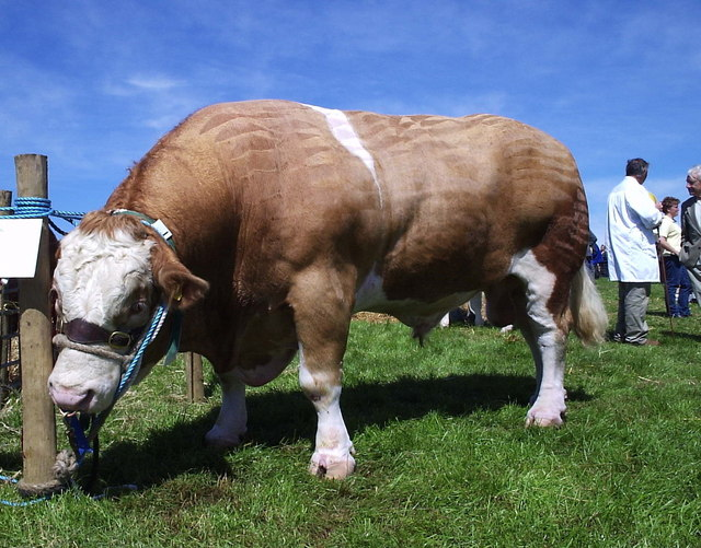 Waiting for the judging at Fishguard show This Simmental bull has been beautifully groomed to look his best.